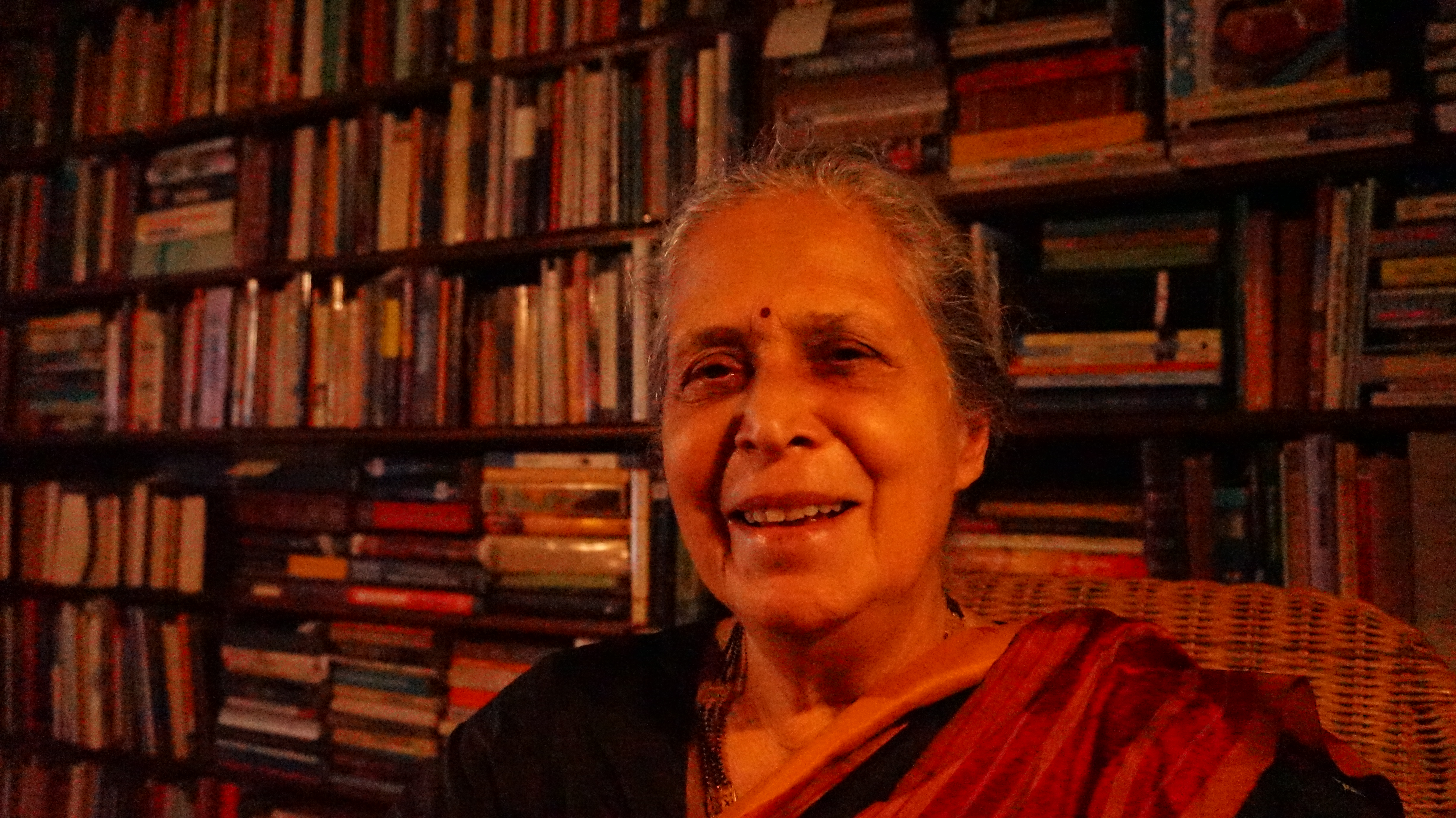 November 2015. At Carona, Aldona, Goa.